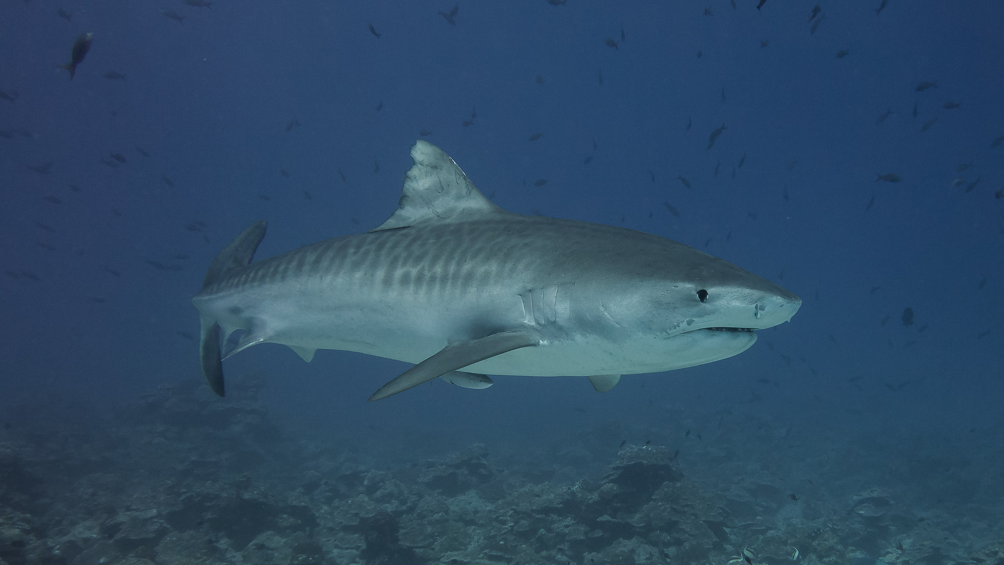 500px provided description: The tigers have excellent sense of smell and sight. Some native Hawaiians think their eyeballs have the power to look into the future. [#blue ,#animals ,#animal ,#shark ,#wildlife ,#underwater ,#diving ,#dive ,#marine ,#costa rica ,#marine life ,#undersea ,#scuba ,#cocos island ,#sealife ,#scuba diving ,#marinelife ,#scubadiving ,#tiger shark ,#scubadive ,#scuba dive]